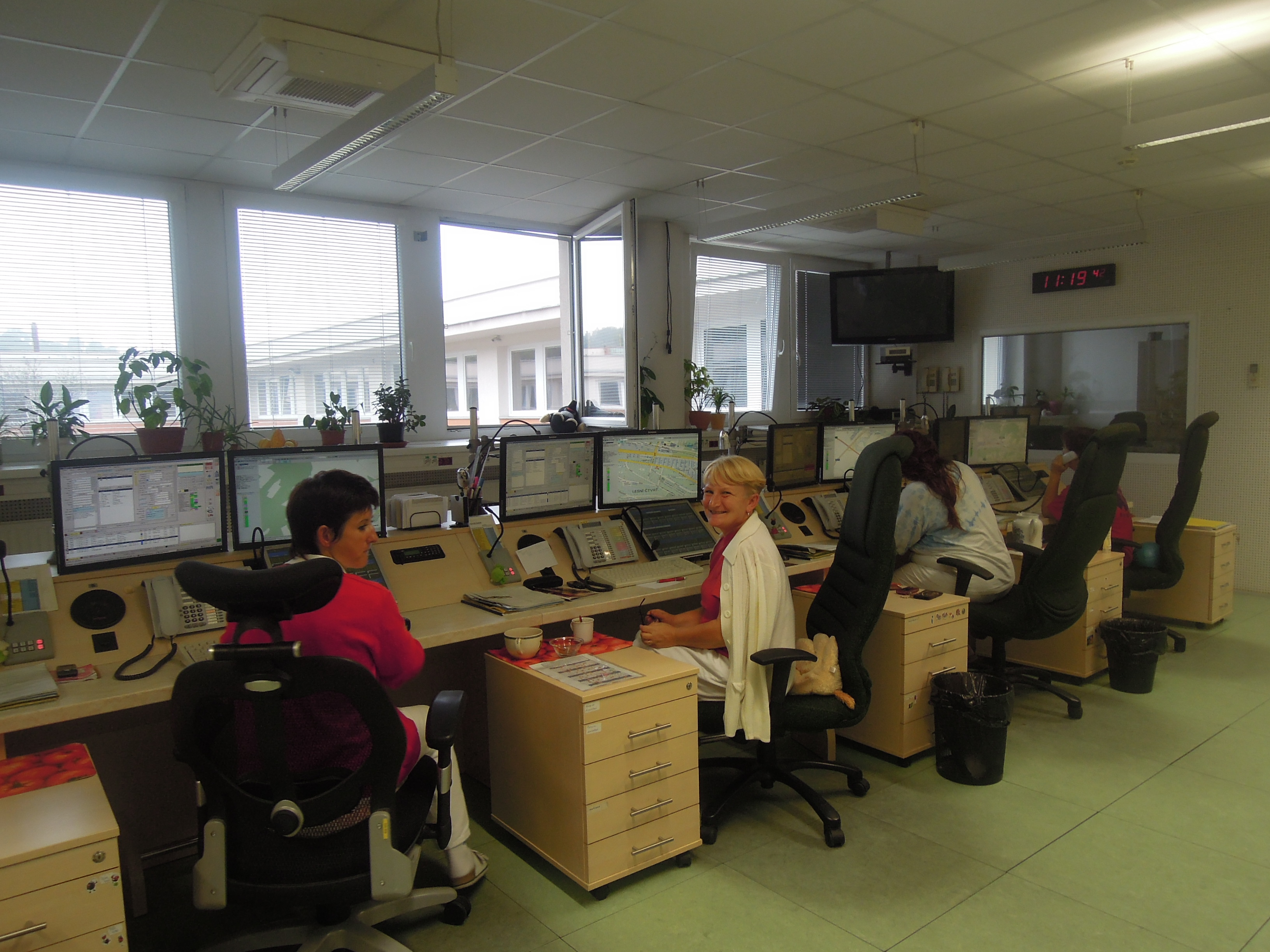 Center of emergency call 155 in Zlín, Zlín Region, Czech Republic